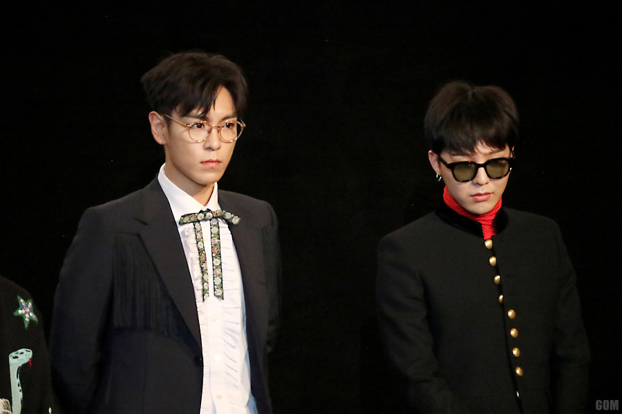 Big Bang members in the premiere of their movie "MADE" in June 28, 2016